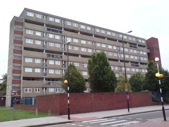 Alice Shepherd House, Manchester Road, E14 Alice Shepherd had been a long standing local councillor in the area.